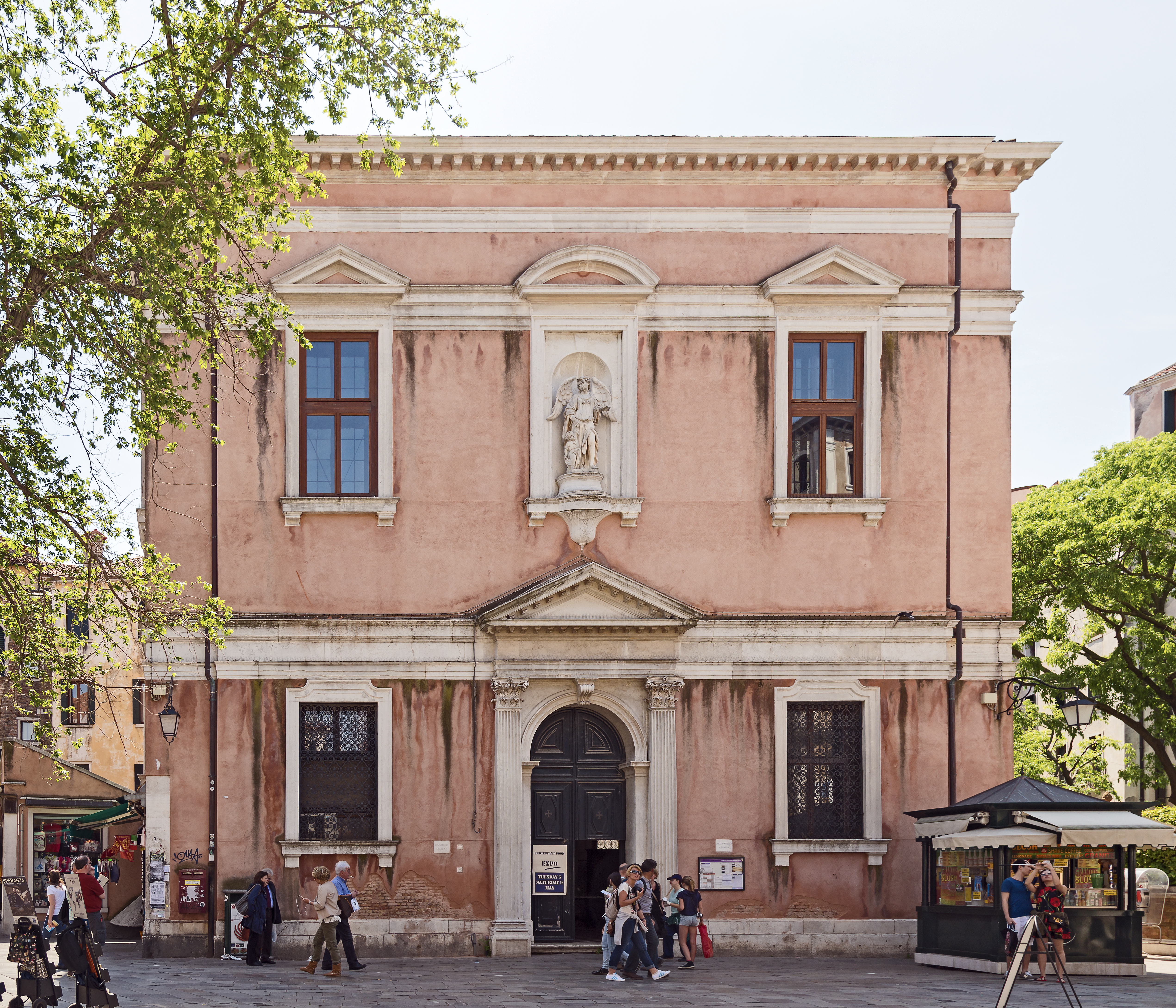 The "Scola dell'Angelo Custode" in Venice, built in 1713 on a project by Andrea Tirali in "Campo Santi Apostoli" square, serving as the Evangelical Lutheran Church of Venice (Chiesa Luterana di Venezia, aka Chiesa Evangelica Alemanna) since 1813.